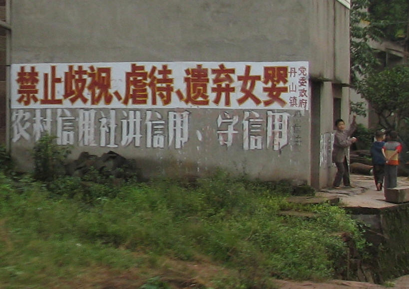 Don't abandon baby girls: the characters in red on the roadside sign in Danshan Township, Sichuan Party Committee and government reads "It is forbidden to discriminate against, mistreat or abandon baby girls." Photographed September 2005.